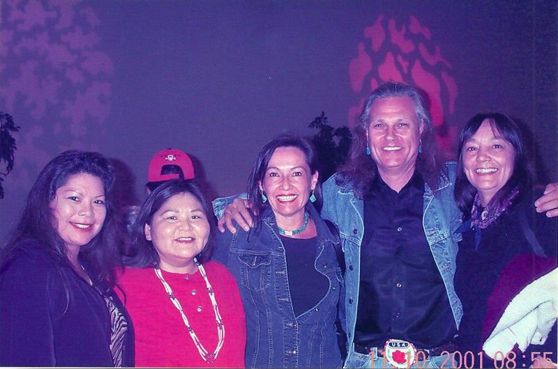 Patty Talahongva, Elaine Miles, Neeta Lind, Michael Horse and Tantoo Cardinal at the 2001 San Francisco American Indian Film Festival.